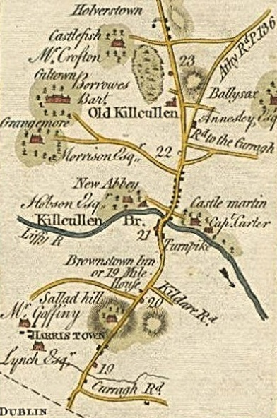 Kilcullen (Old) and Kilcullen-Bridge, on one of Taylor and Skinner's roadmaps, 1777-1783